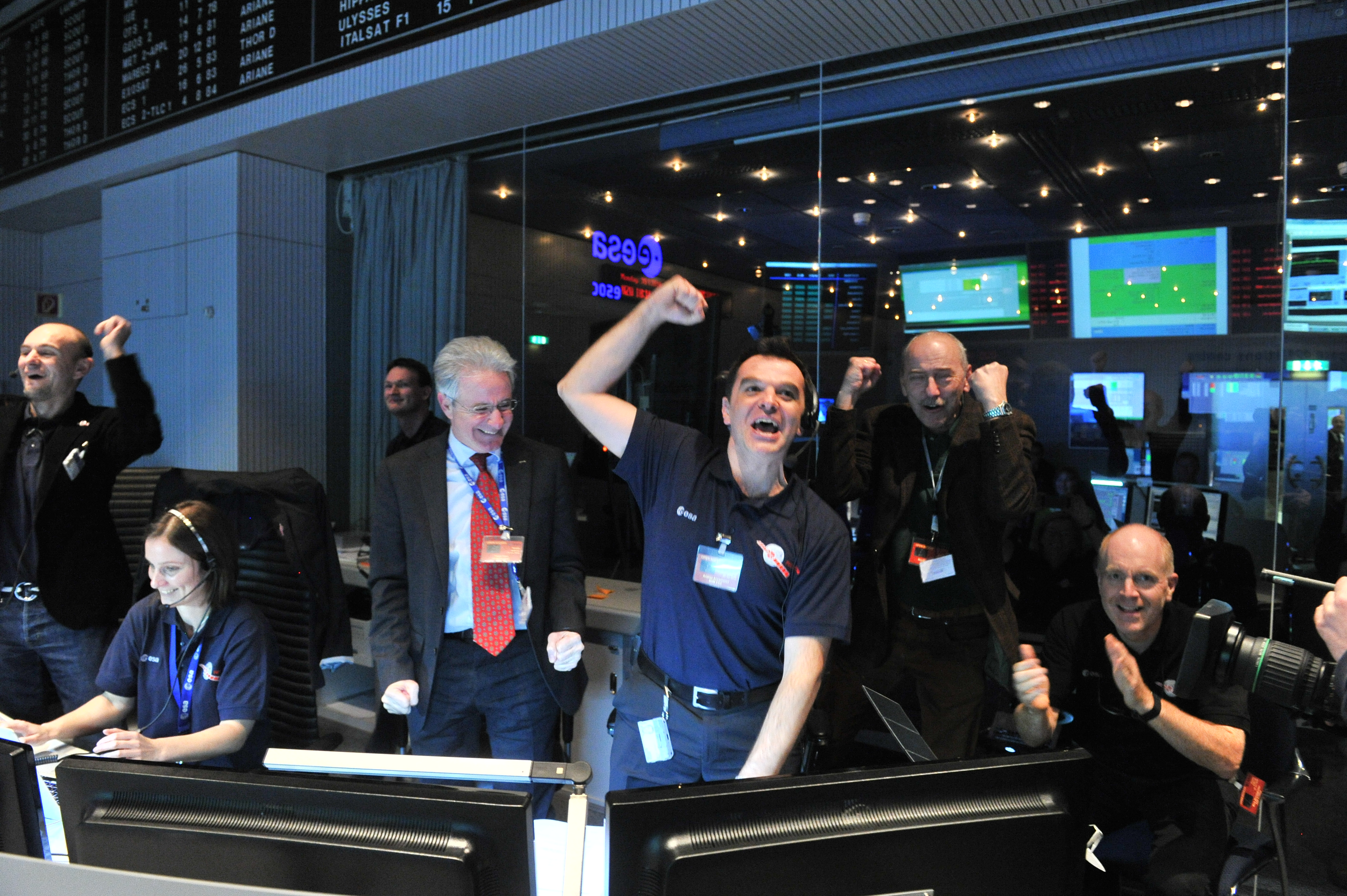 Main Control Room / Mission Control Room of ESA at the European Space Operations Centre (ESOC) in Darmstadt, Germany. Joy from receiving first signals from Rosetta probe after "waking up" January 20, 2014.